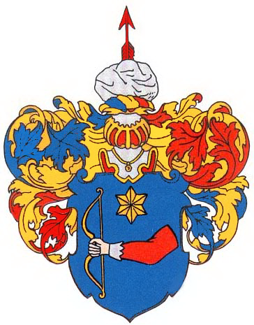 Coat of Arms of Krusenstiern family